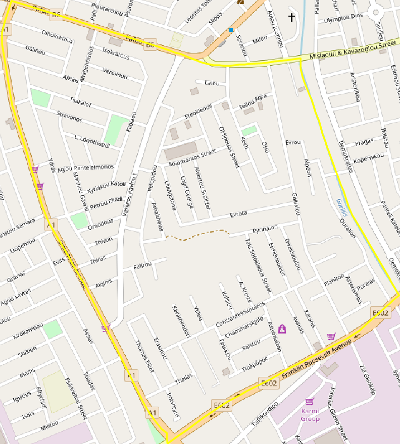 Map of Omonoia.